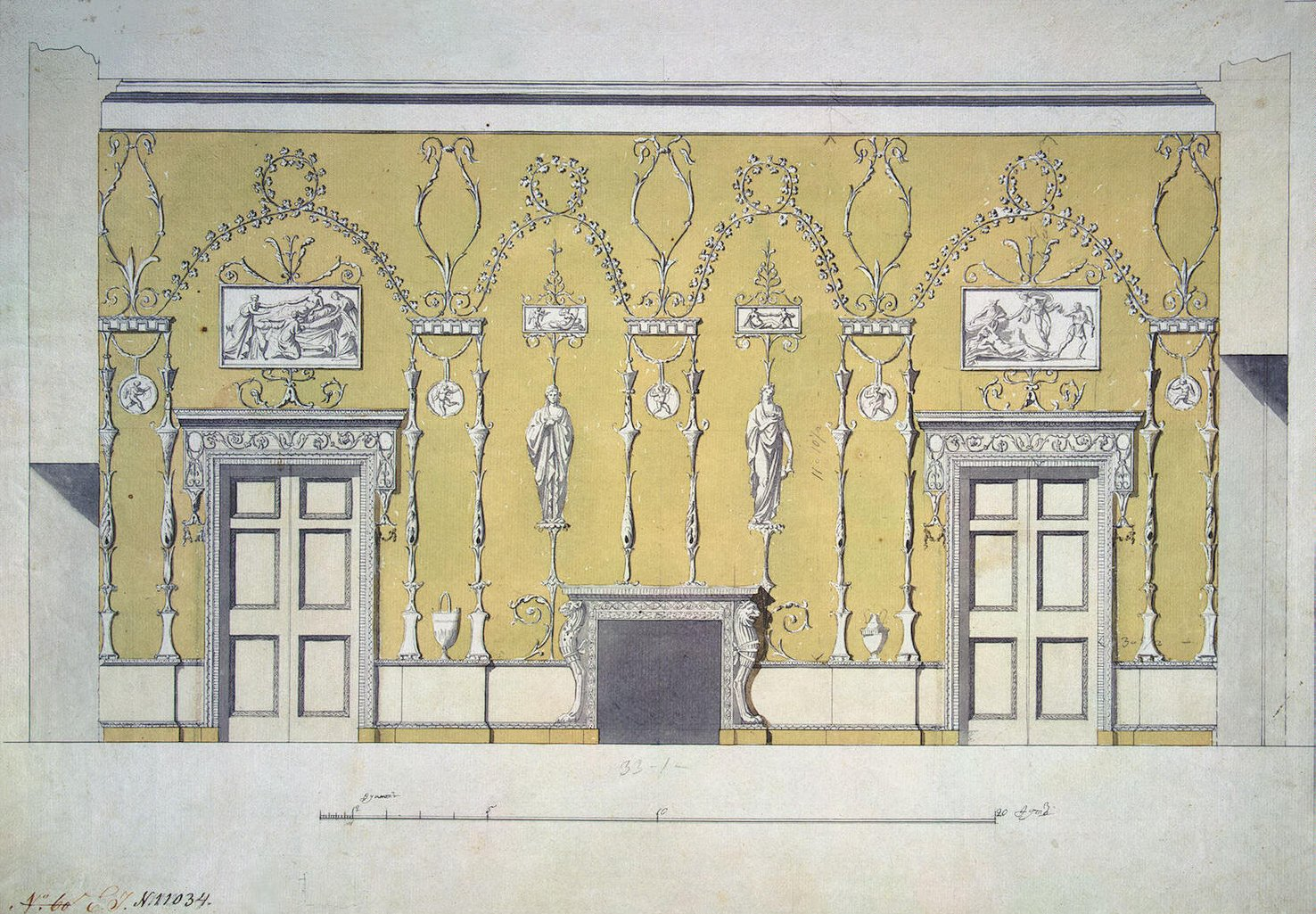 Design for the Green Dining Room in the Catherine Palace at Tsarskoye Selo. Drawings, Pen, brush, Indian ink and watercolour, 49x65.5 cm. Hermitage Museum, acquired from Charles Cameron's descendants in London, as part of Cameron's archives, 1822.